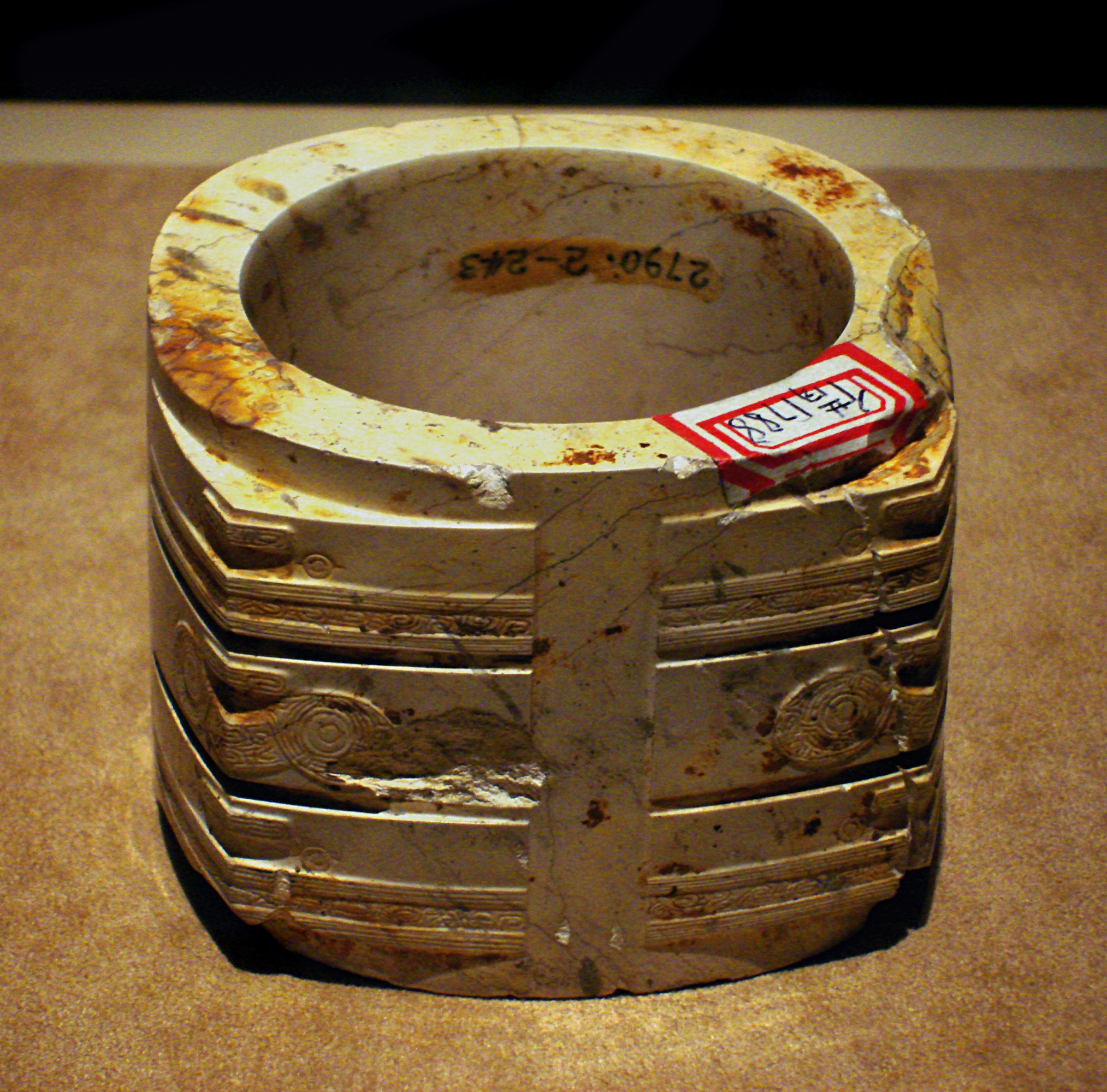 Jade Cong Liangzhu Culture Neolithic Period (3300 - 2200 B.C.) From the lower Yangzi River Valley, this cong was used in rituals of worship; it has a square outside, symbolizing earth, and round inside, symbolizing heaven. A medium used the cong to communicate with the spirits of heaven and earth. Most congs have been found in large, elaborate tombs, and were likely owned by nobles.